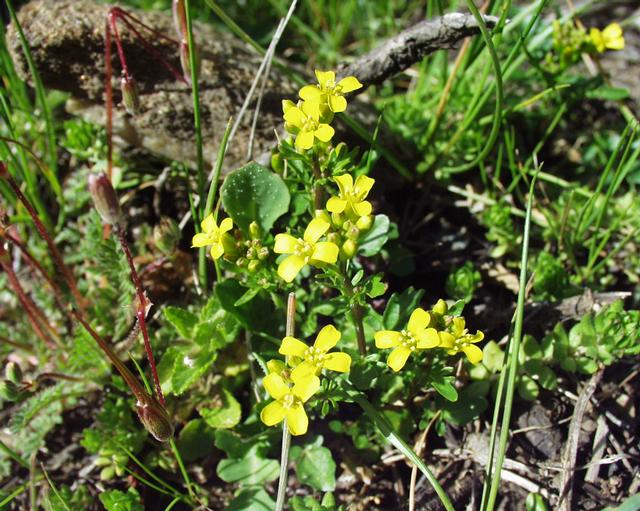 (en) Barbaraea verna, a photography originating of the internet site The accord of the autor, H. Brisse, is here. (fr) Barbaraea verna, une photographie issue du site internet L'accord de l'auteur, H. Brisse, se situe ici.